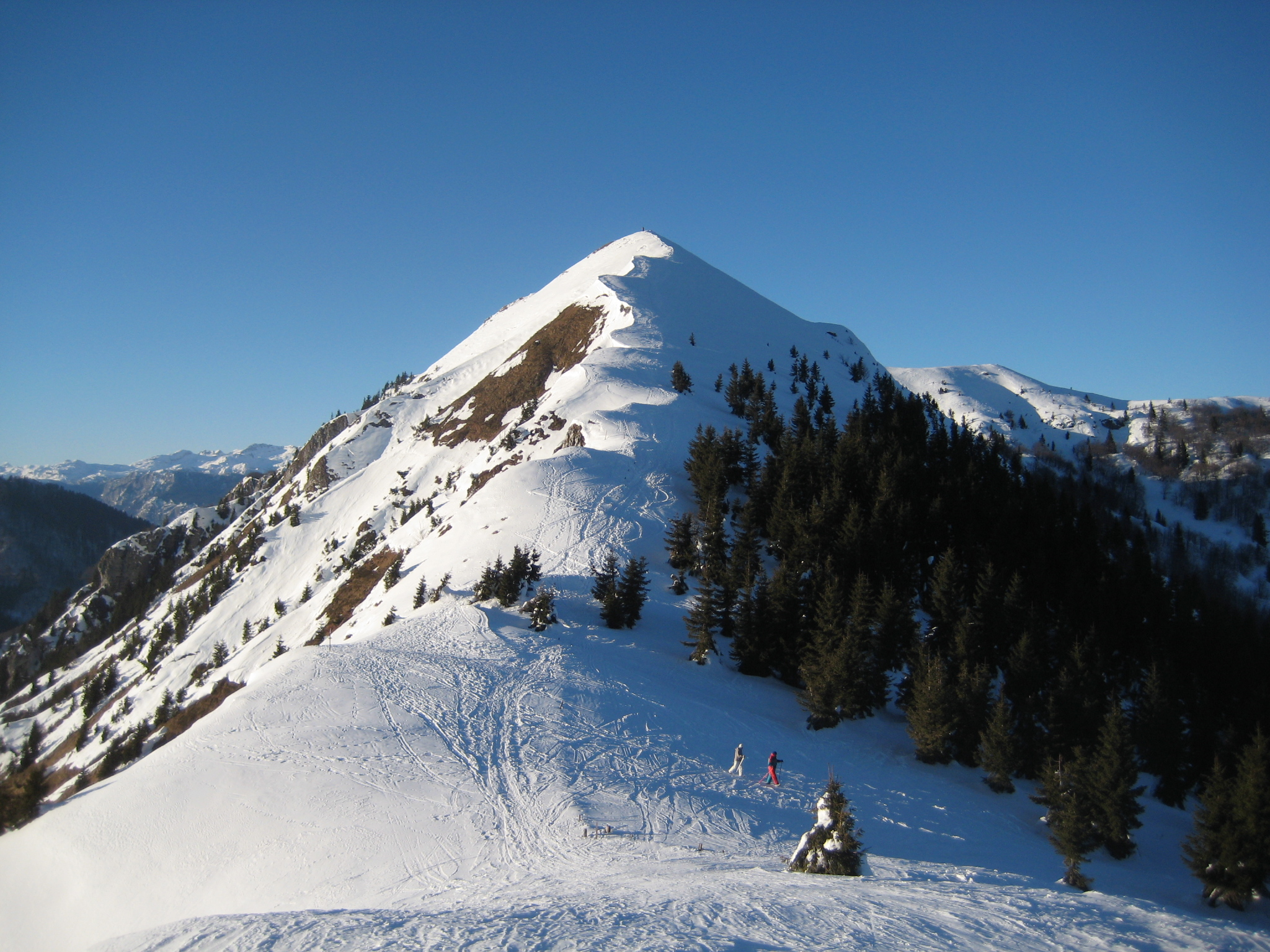 Mt. Slatnik, above Sorica ski resort, Slovenia